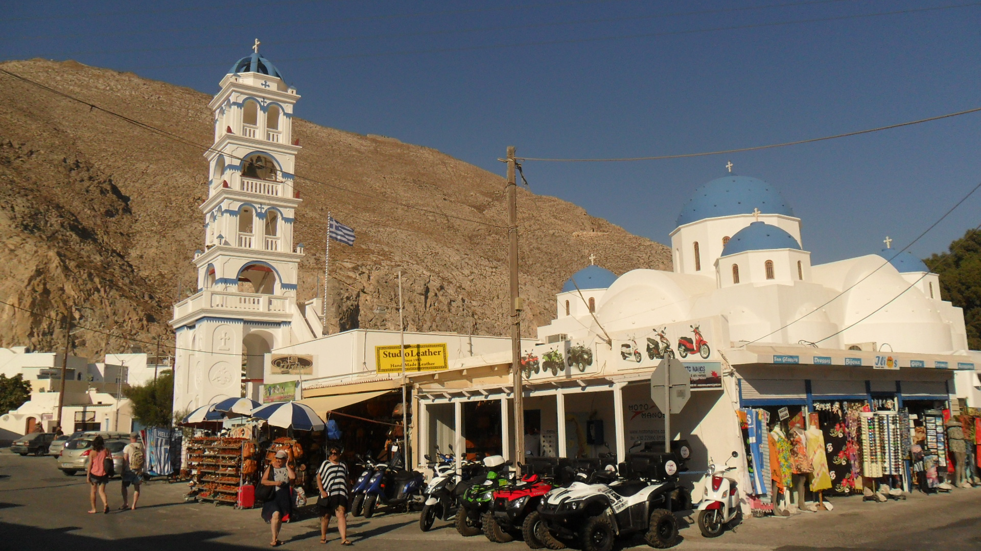 Perissa Church, Santorini